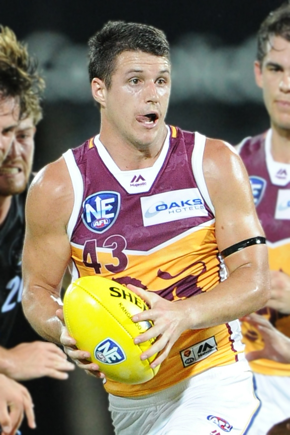 Jake Barrett of the Brisbane Lions during the NEAFL round one match between NT Thunder and Brisbane Lions at TIO Stadium on 7 April 2018 in Darwin, Australia.